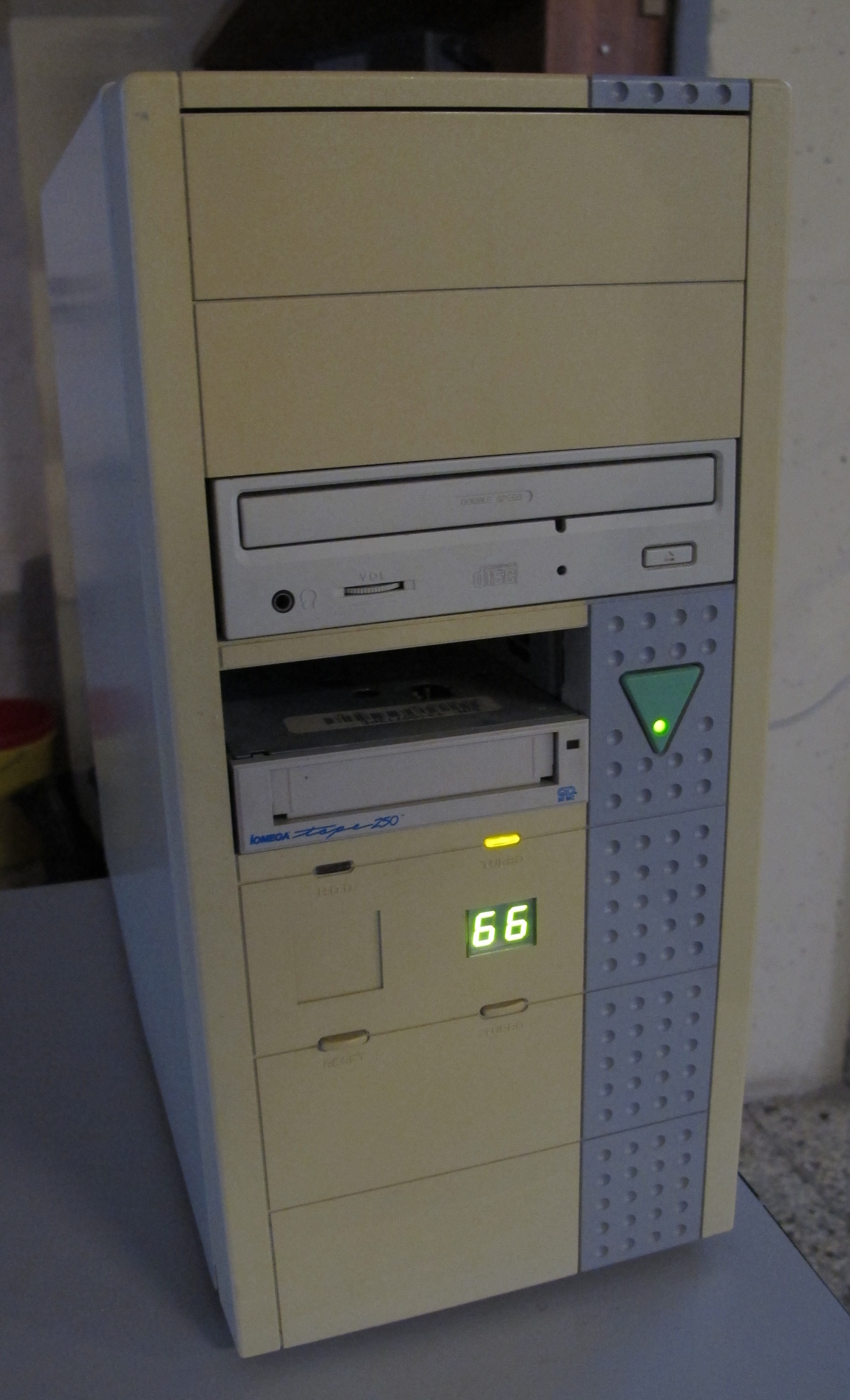 Intel 80486 DX2 Computer